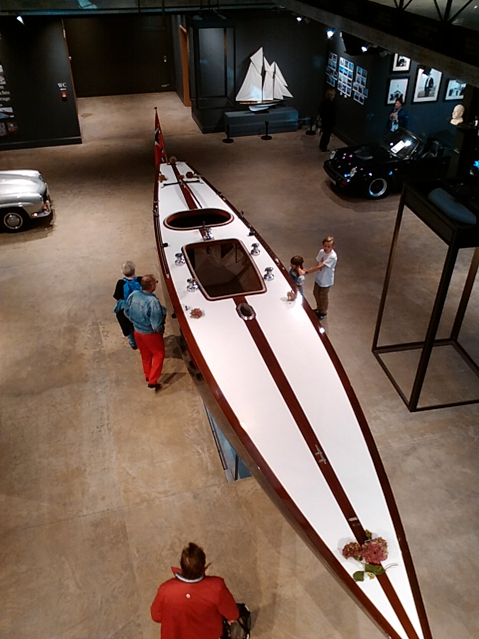 Robbe & Berking Yachting Heritage Centre, inside with 6mR-Yacht NORNA, Flensburg, Germany